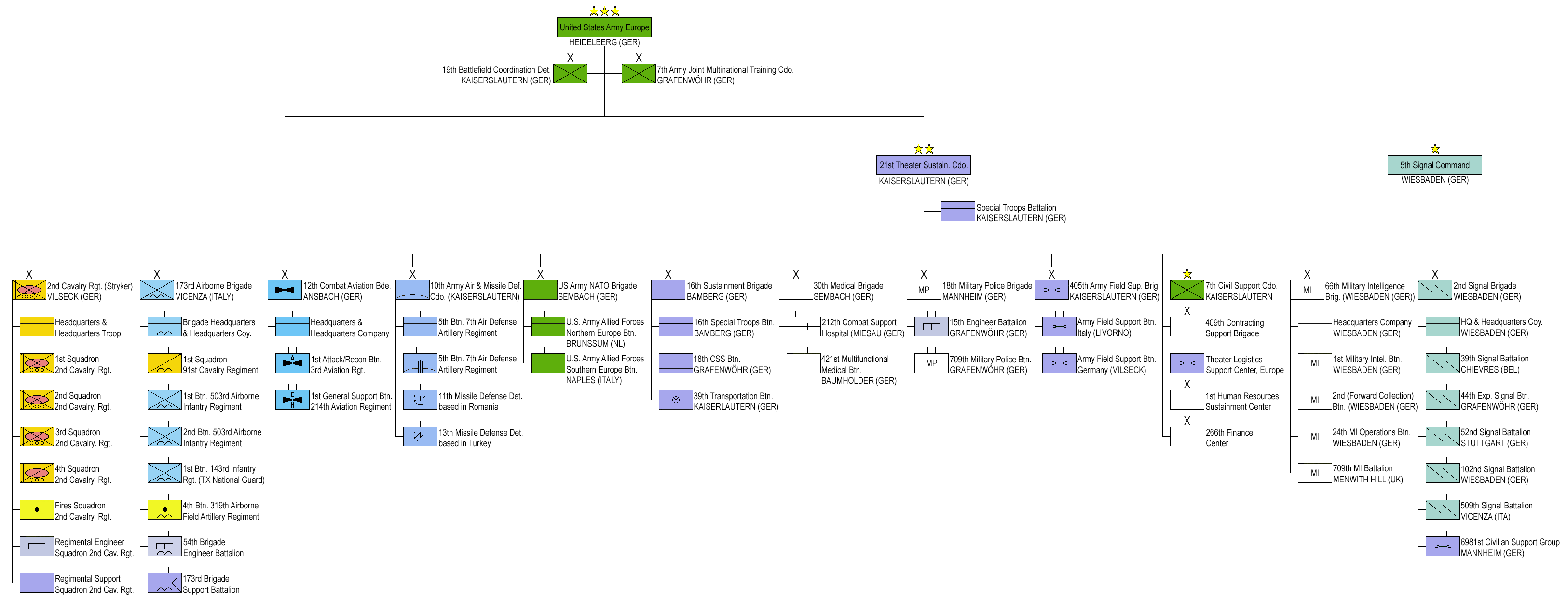 US Army Europe Structure 2016